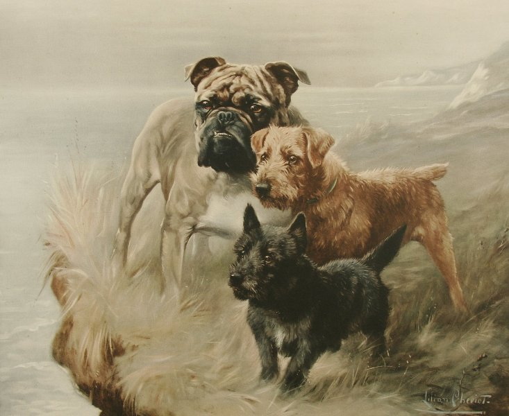 "Come over here!" (b. 1915) - World War I. A British bulldog, a Highland terrier and a Welsh terrier. The three dogs are standing on a French clifftop looking towards the English coast.